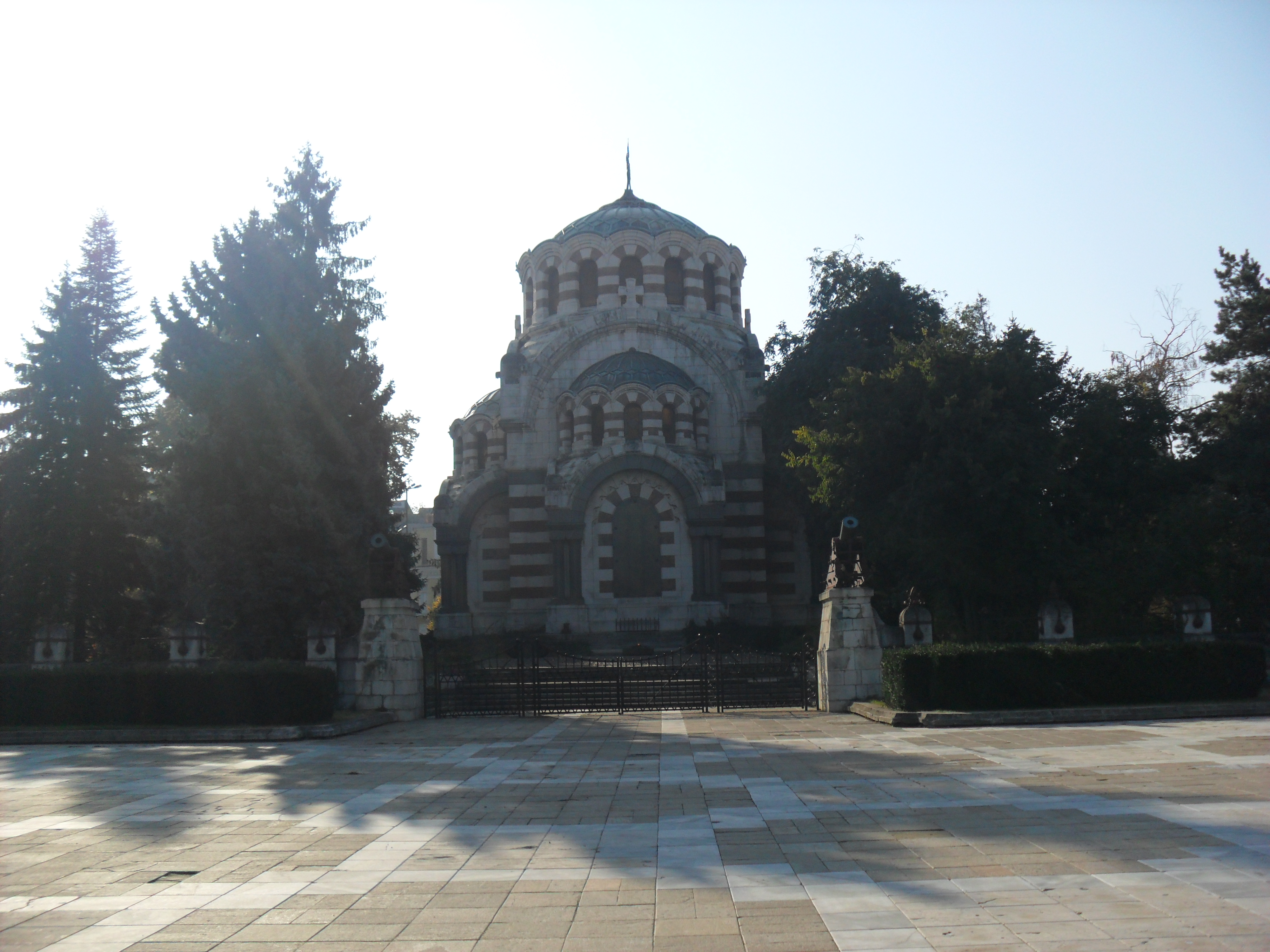 The mausoleum in Pleven in the central part of the town